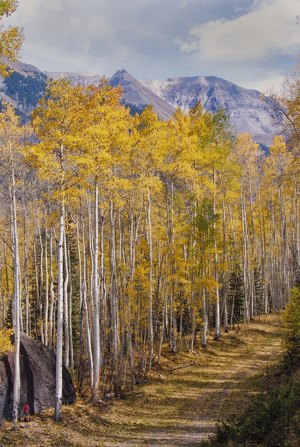 On the ski slope at Telluride. Dude in lower left corner getting ready to practice some rock climbing.